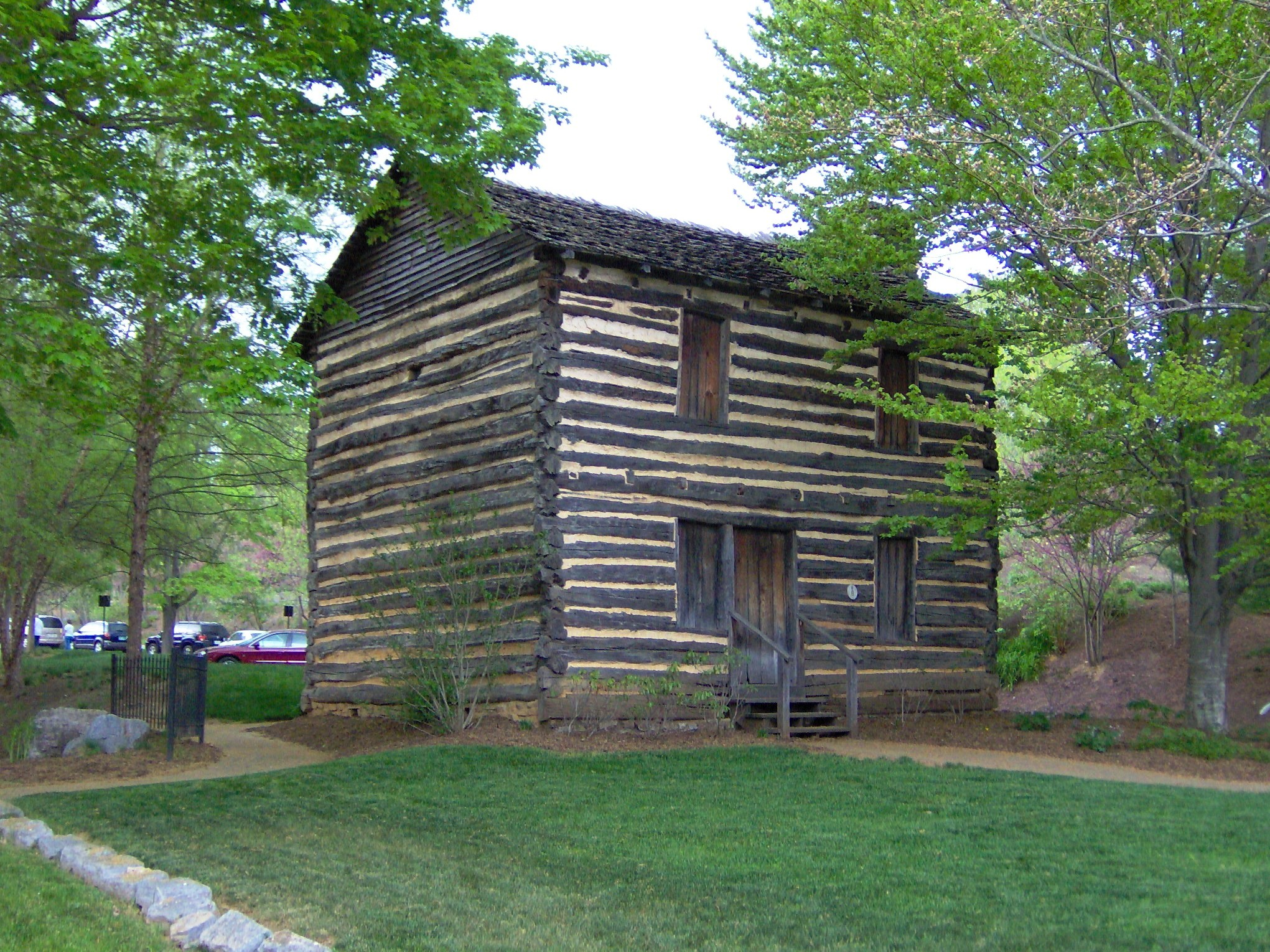 The Christopher Taylor House in downtown Jonesborough, Tennessee, in the southeastern United States. The cabin was built around 1777 a mile or so southwest of Jonesborough and moved to the city's main district in 1974.